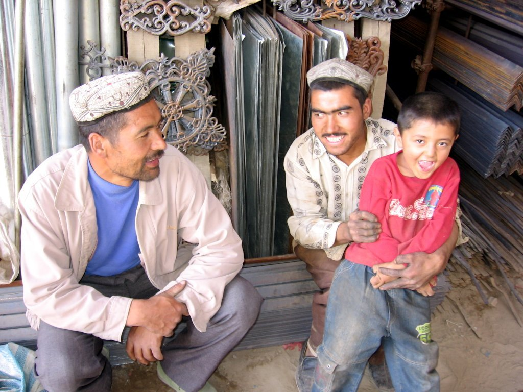 Khotan (Hotan / Hetian) is an oasis city in the Xinjiang Uygur Autonomous Region of the People's Republic of China. Uyghur people at sunday market.